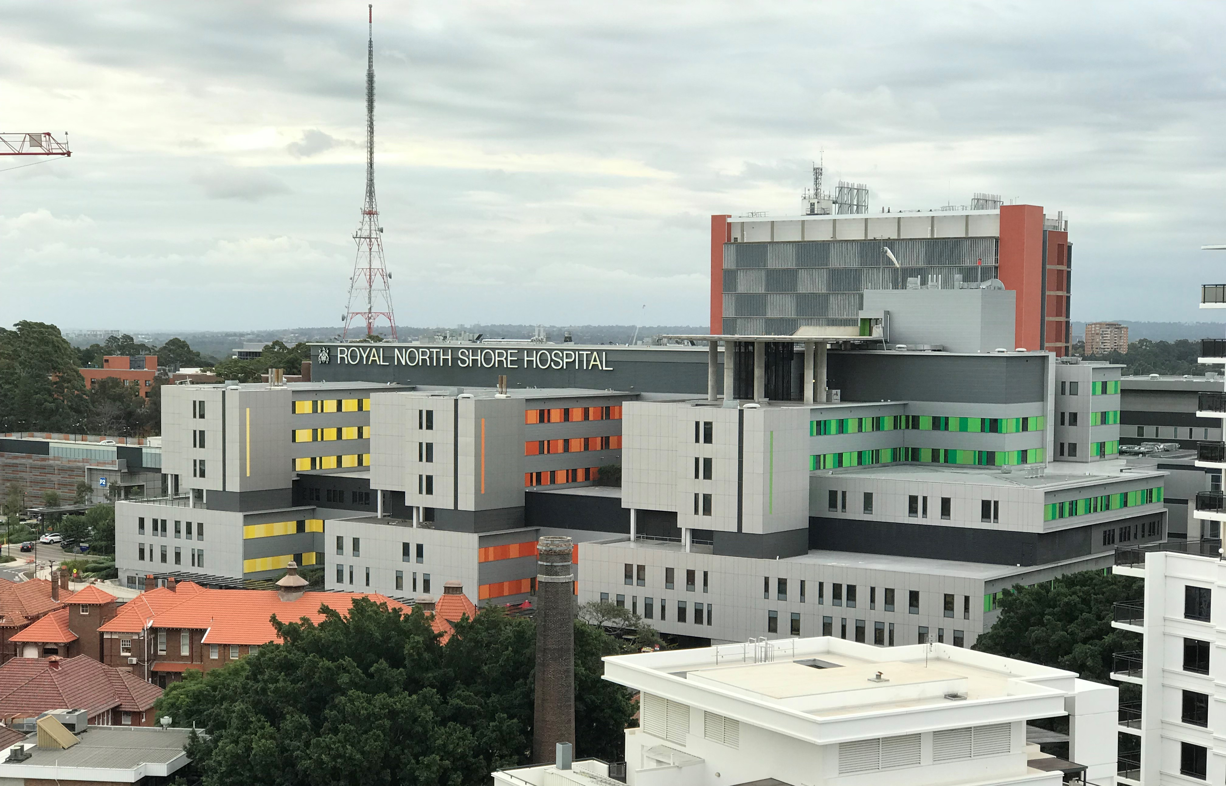 Pic of RNSH from elevated position south-east of the hospital.